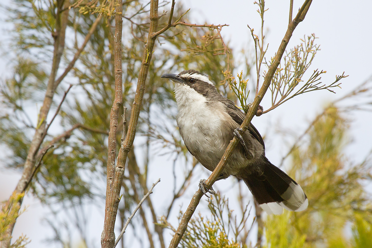 Muckleford Forest, Vic.